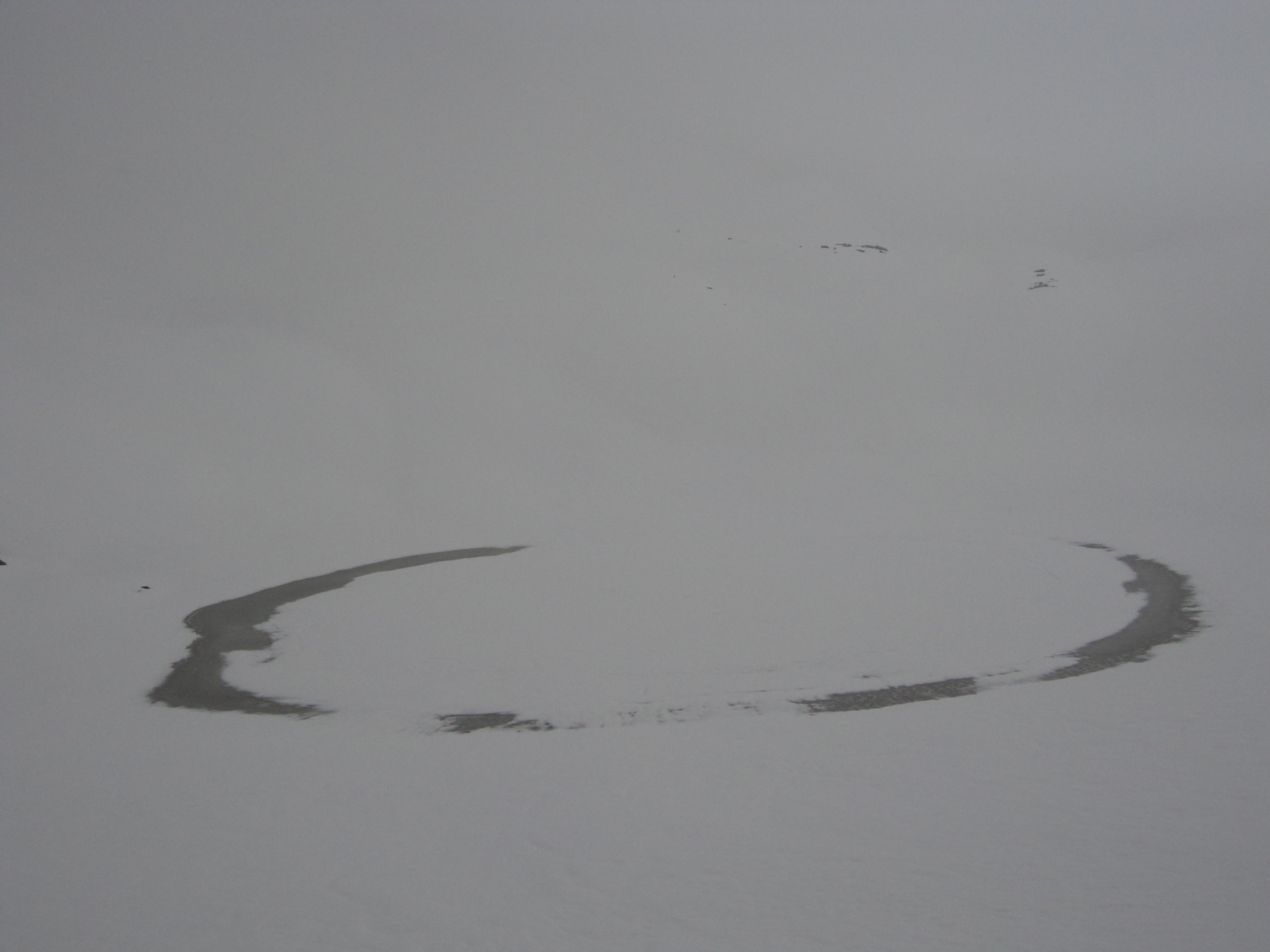 Frozen brighu lake found in himalaya